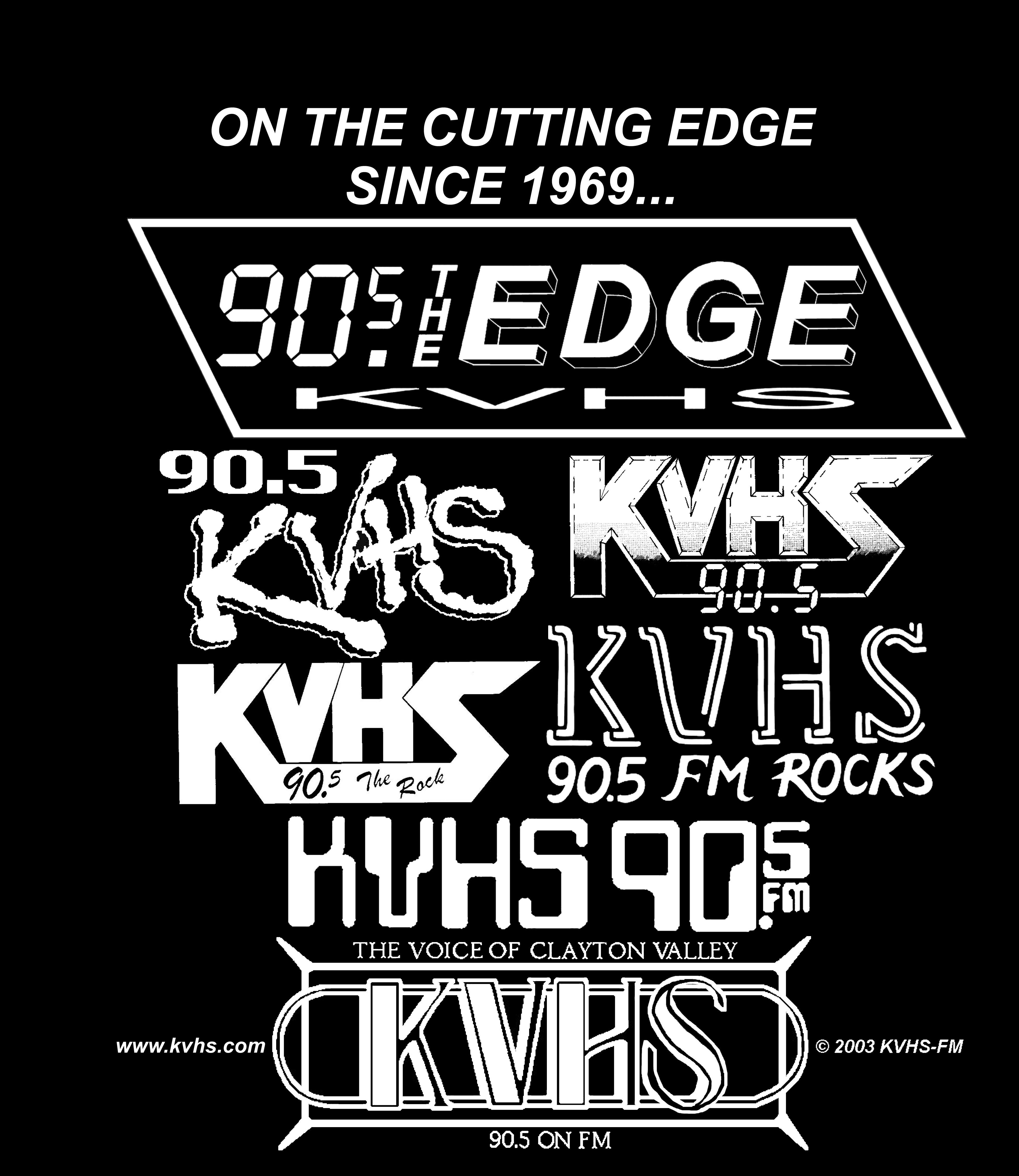 KVHS Bumper Sticker Gallery